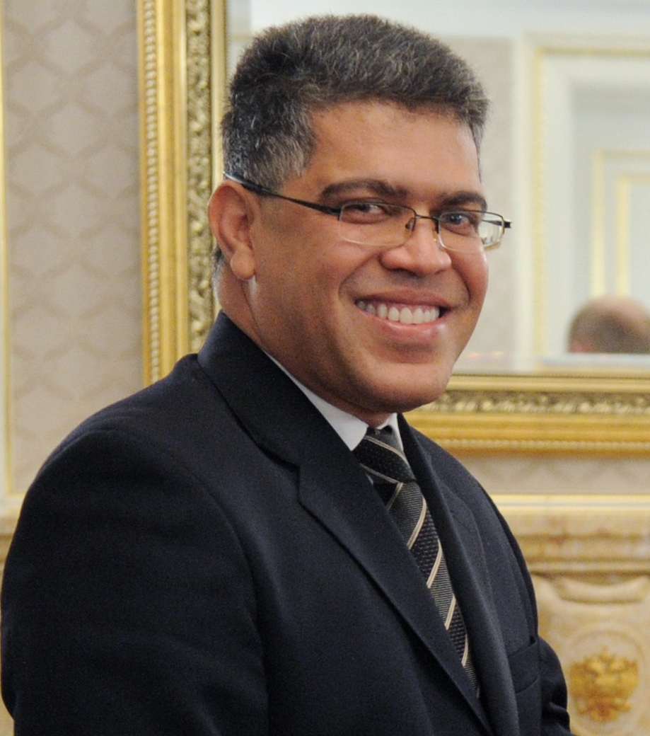 Prime Minister Vladimir Putin meets with Vice President of the Bolivarian Republic of Venezuela Elías Jaua Milano in Moscow.